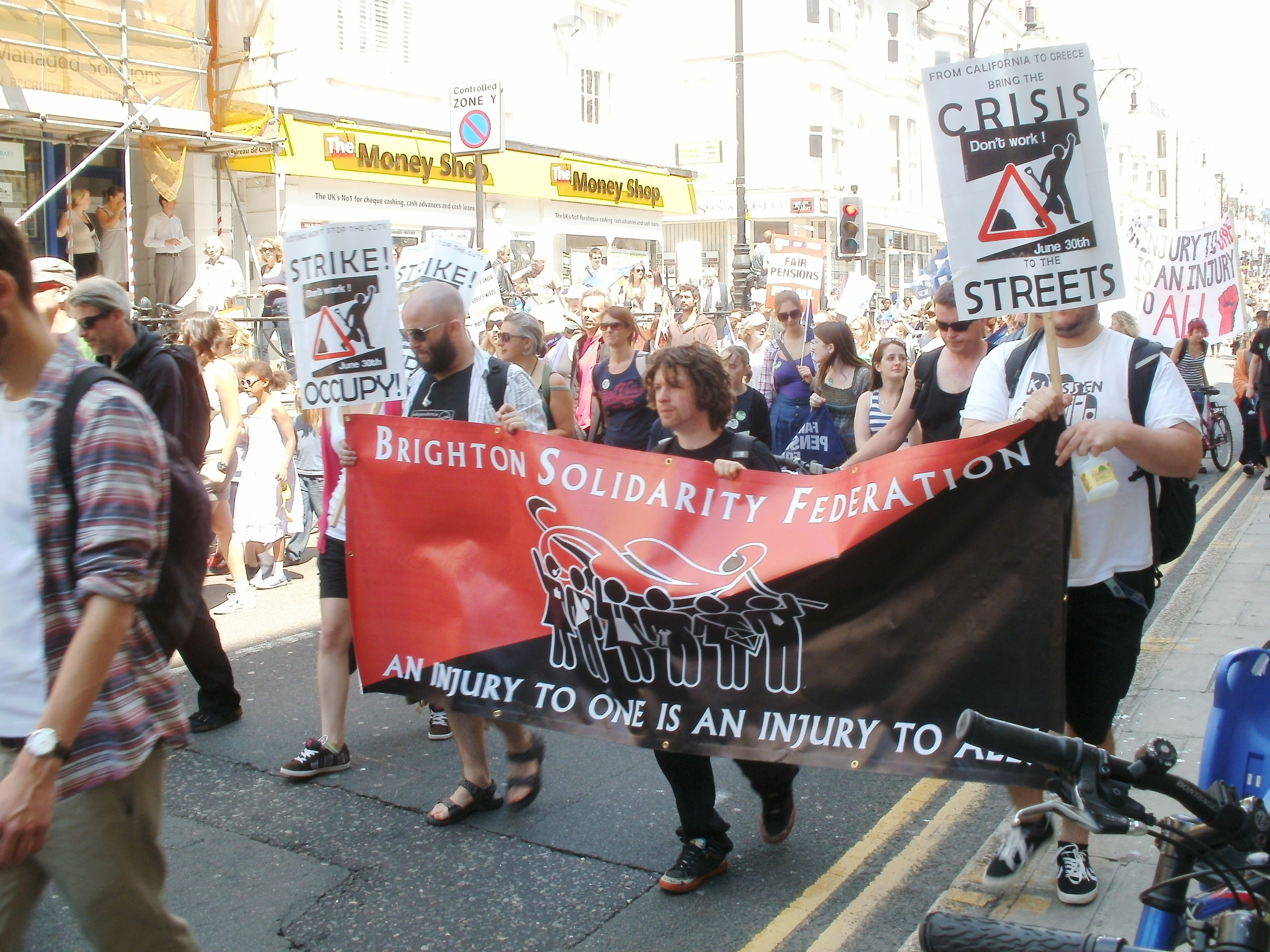 Protest march in Brighton on June 30.